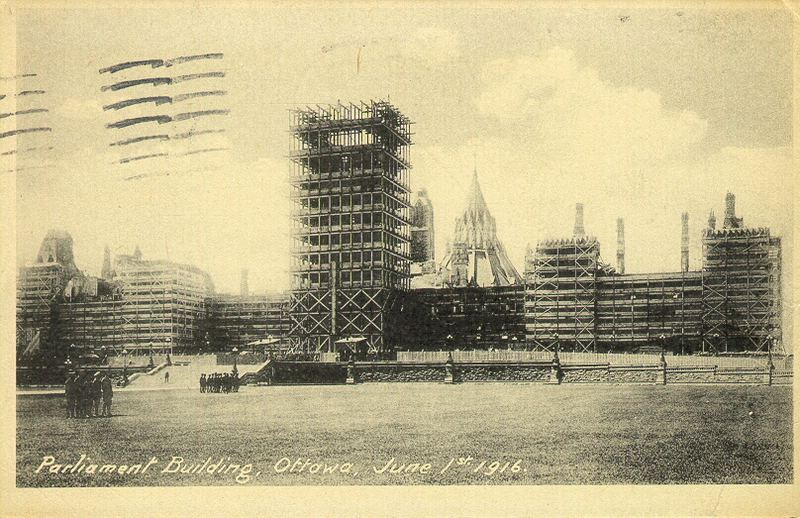 Postcard of the new Centre Block under construction. Ottawa, Canada.